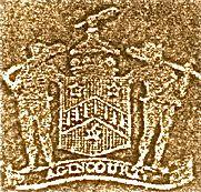 stamp showing the Wodehouse family coat of arms, used to stamp his books by John Wodehouse, 1st Earl of Kimberley (1826 - 1902). [nb. shown is the plain family coat of arms as used in the 15th century, not the personal coat of arms used by the 1st Earl of Kimberley]. Crest: An arm erect holding a club in bend sinister Arms: Sable a chevron or goutty de sang between three cinquefoils Supporters: Two wodehouses, or wild men, wreathed about the loins holding clubs over their shoulders Motto: Agincourt (not shown: the historical motto frappe fort to be placed above the crest)